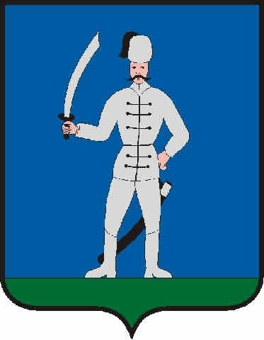 Coat of arms of Hernádnémeti, Hungary